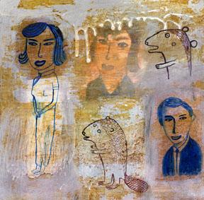 Michael Nakoneczny painting